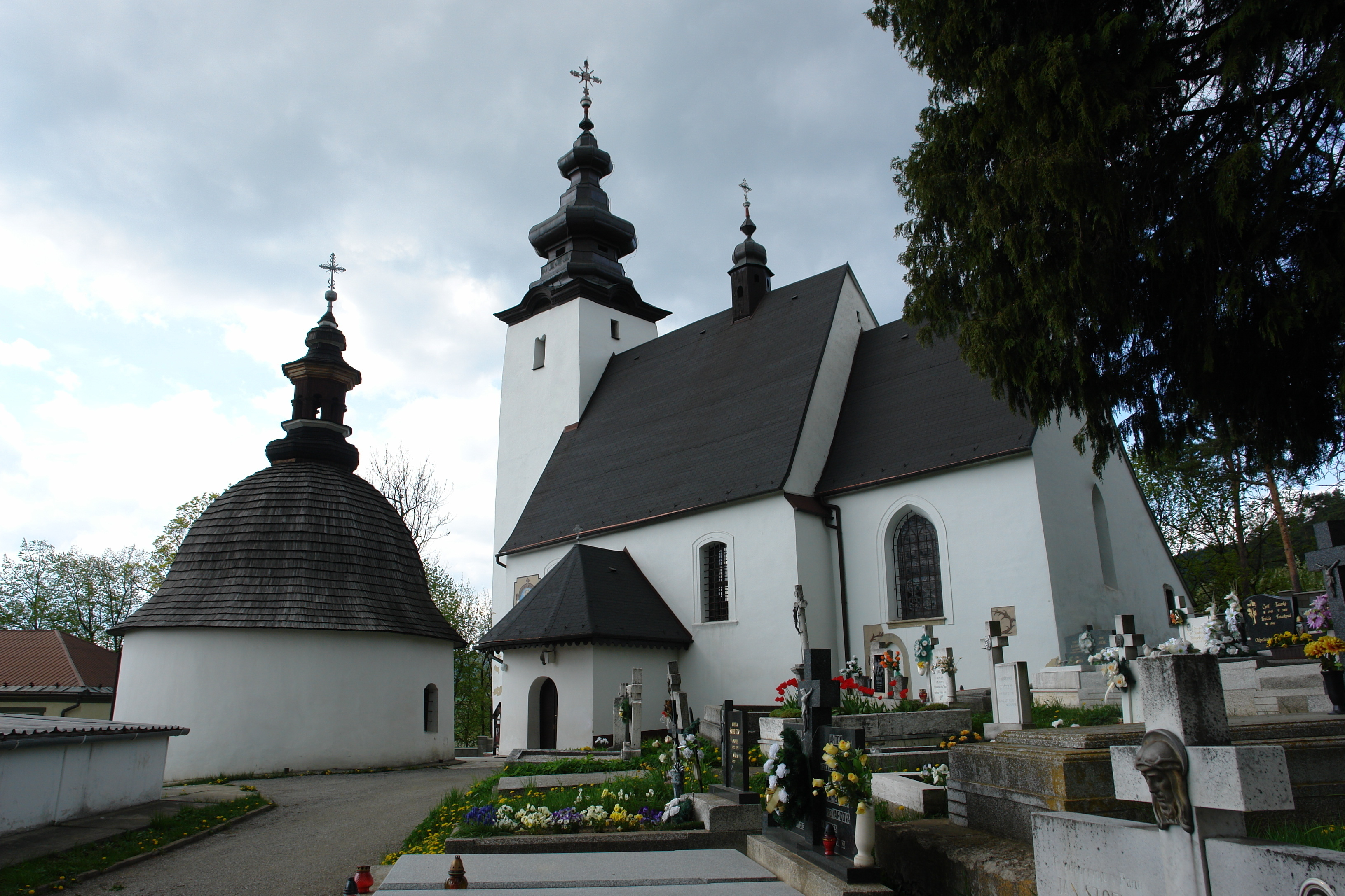 Roman Catholic Church of All Saints and late Romanesque rotunda of St. Cosmas and Damian in BijacovceSlovenčina: Rímskokatolícky farský kostol Všetkých svätých a neskororománska rotunda svätého Kozmu a Damiána v Bijacovciach